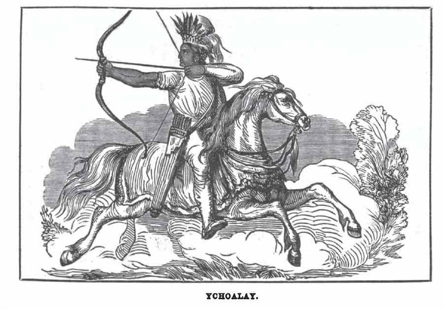 Ychoalay ilusttrated by Samuel Goodrich in his book "Lives of Celebrated American Indians"